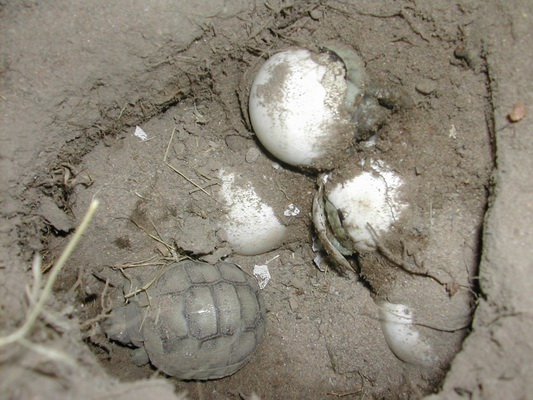 Opened_of_the_eggs_Testudo_marginata_sarda. Sardegna Italy